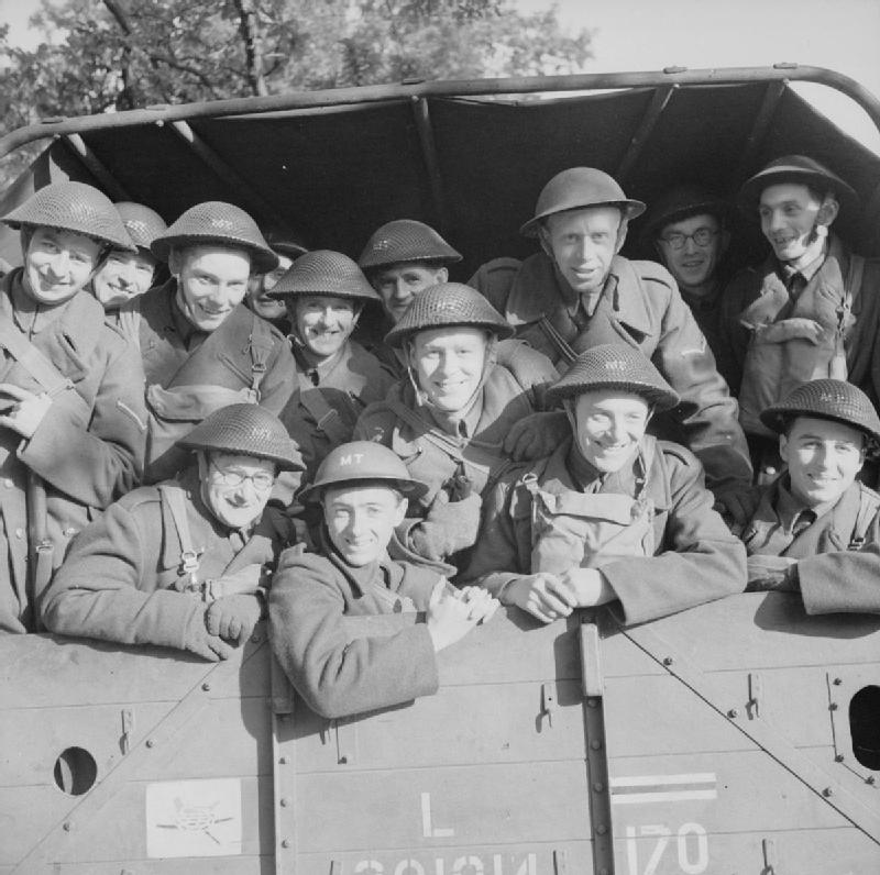 The Home Guard in the United Kingdom 1939-1945 The Home Guard: Personnel of a Home Guard Motor Transport Company in Ulster pictured in an Army lorry. Members of this Company did some of their training with the Royal Army Service Corps in Northern Ireland.